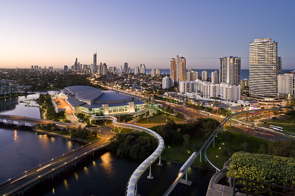 View from Conrad Jupiters looking north to Gold Coast Convention and Exhibition Centre and Surfers Paradise